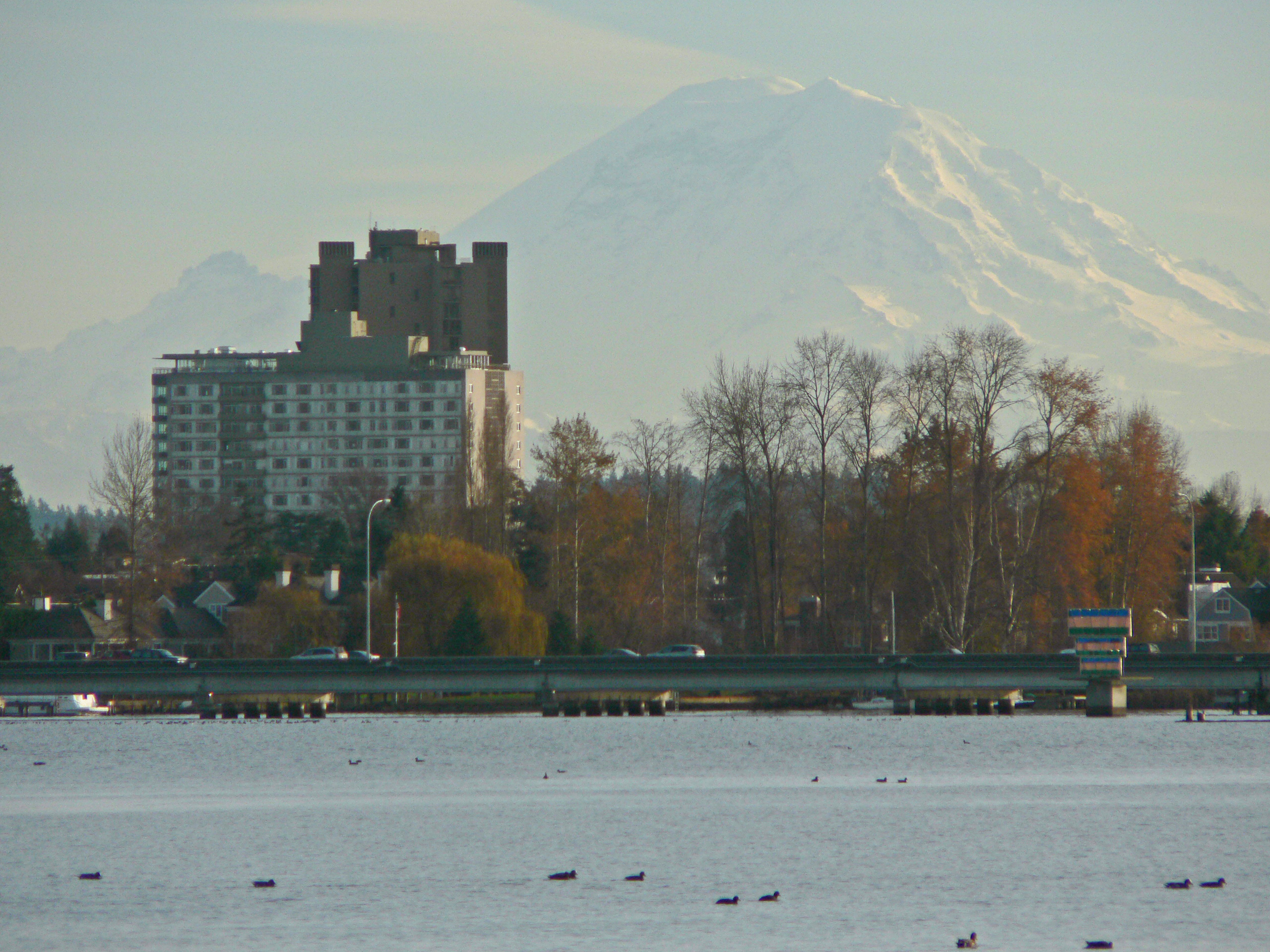 Mount Rainier Union Bay of Lake Washington, Washington Route 520, Madison Park